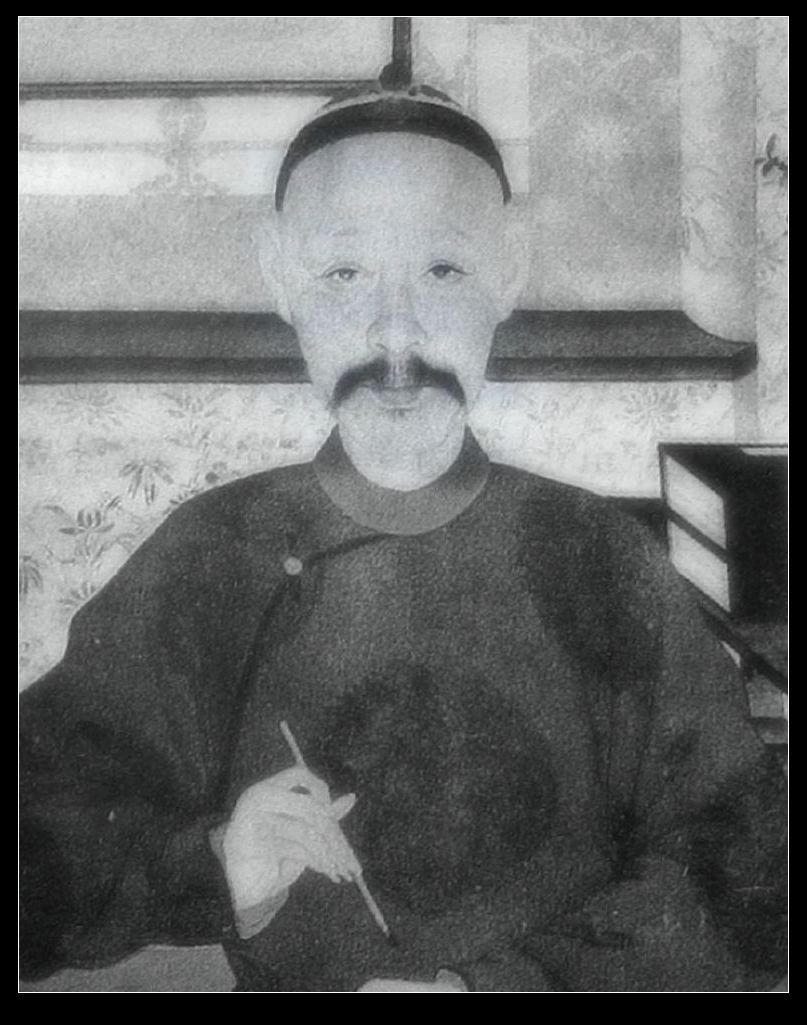 Yihui, grandson of Yongqi, Prince Rong